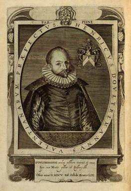 Henri d'oultreman